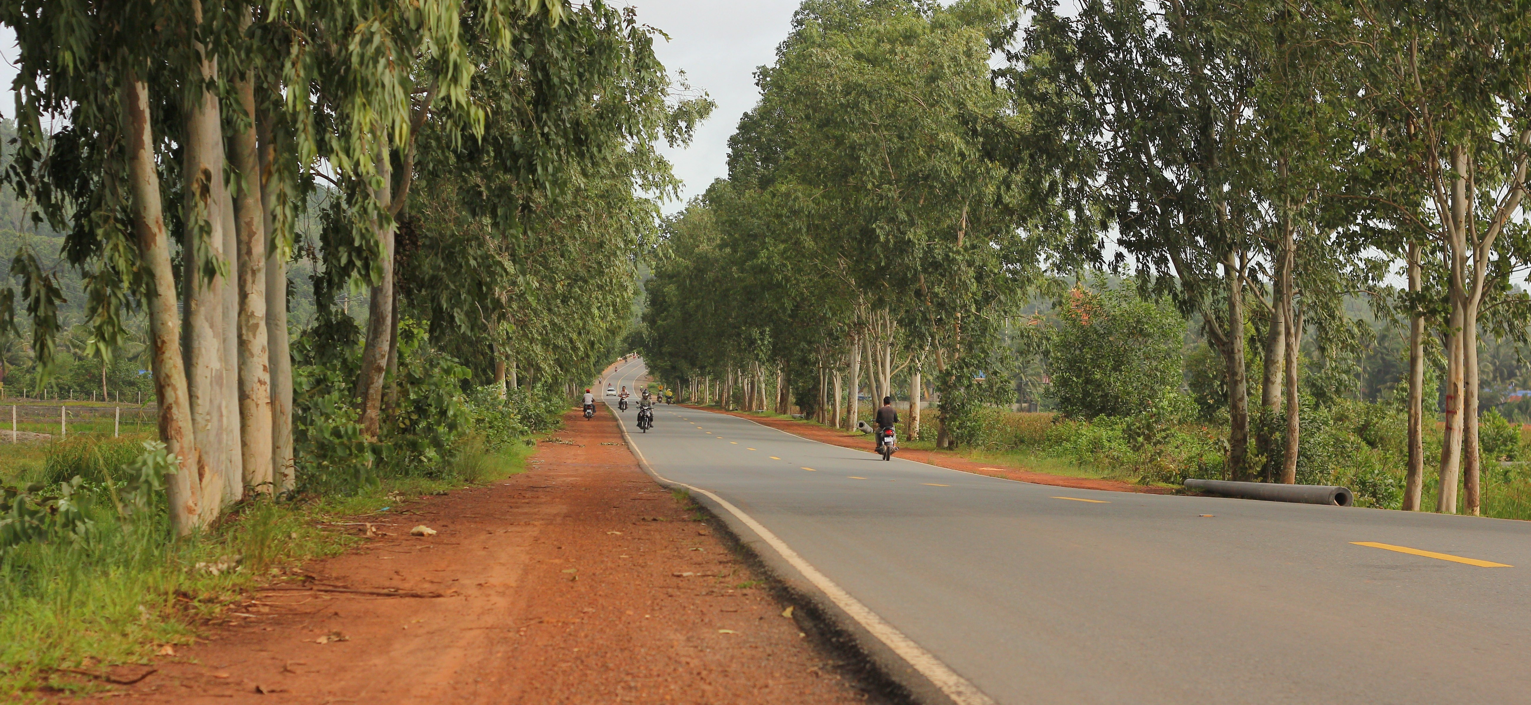 Cambodian national highway 4, about National Park Ream.